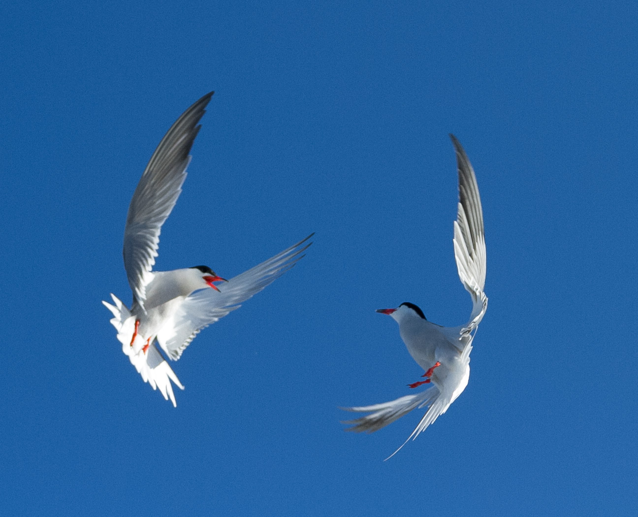 Monomoy National Wildlife Refuge. Credit: Dr. Peter Paton